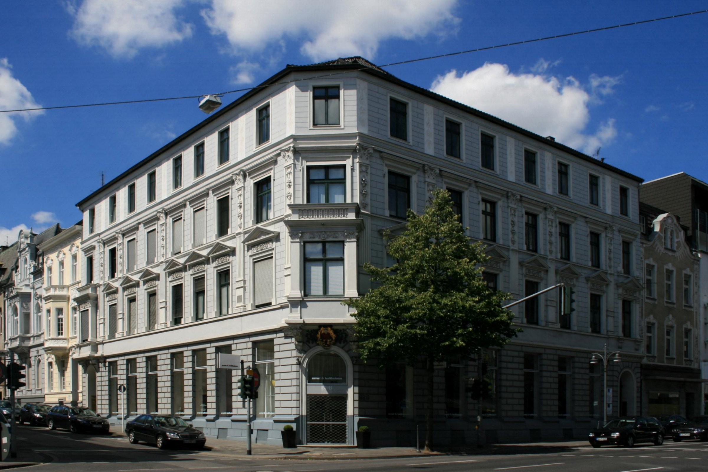 Cultural heritage monument No. K 054 in Mönchengladbach